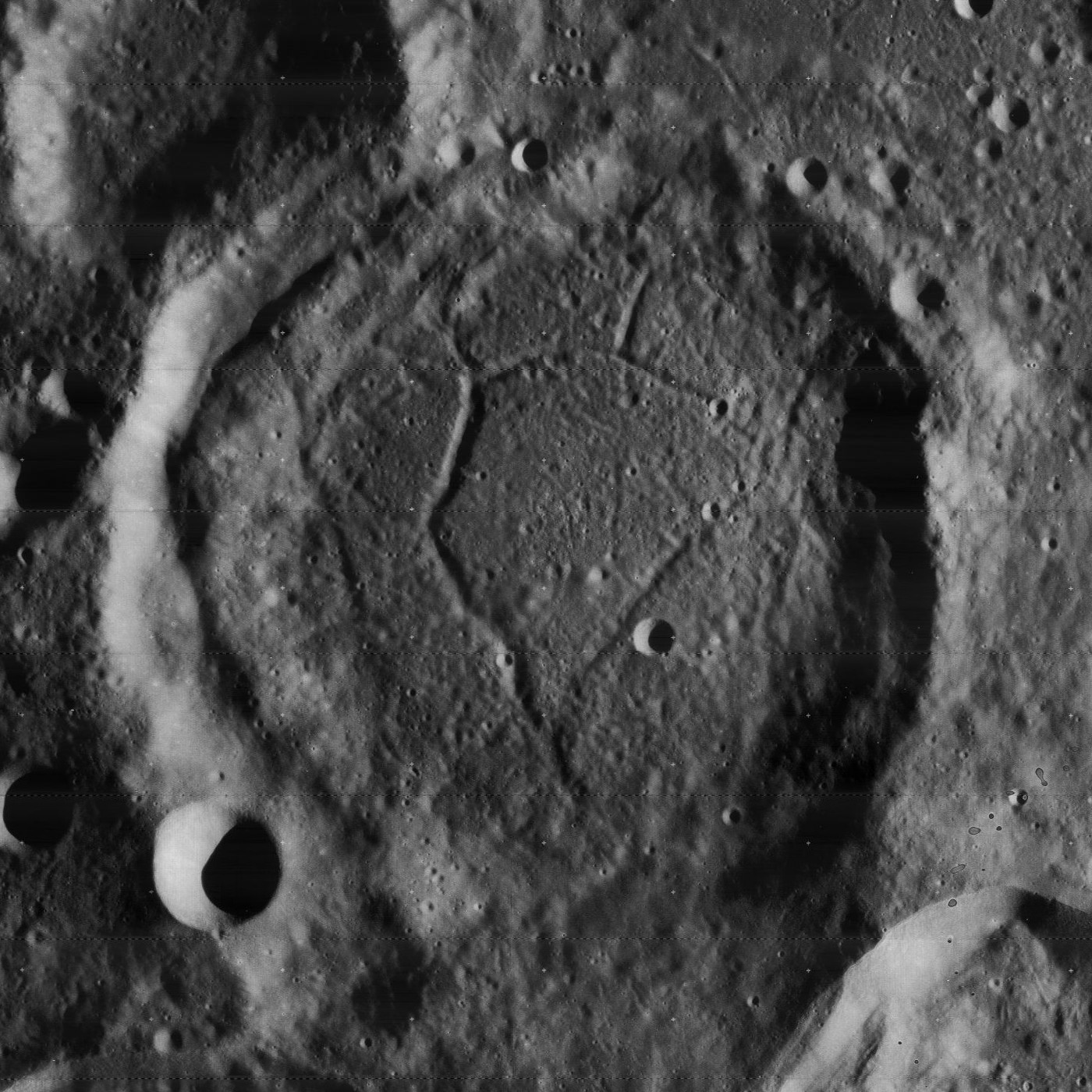 Balboa, on the moon. A few spots in lower right are blemishes on the original.